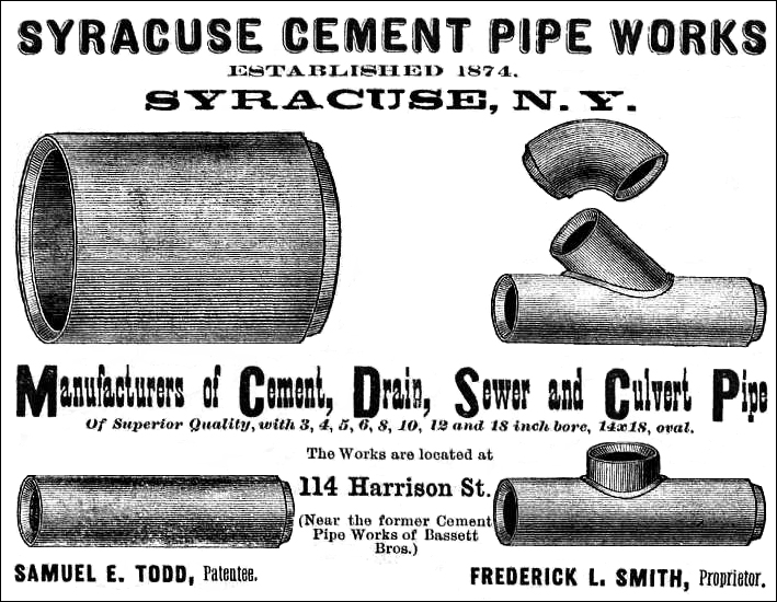 Syracuse Cement Stone Works - Syracuse, New York - 1879